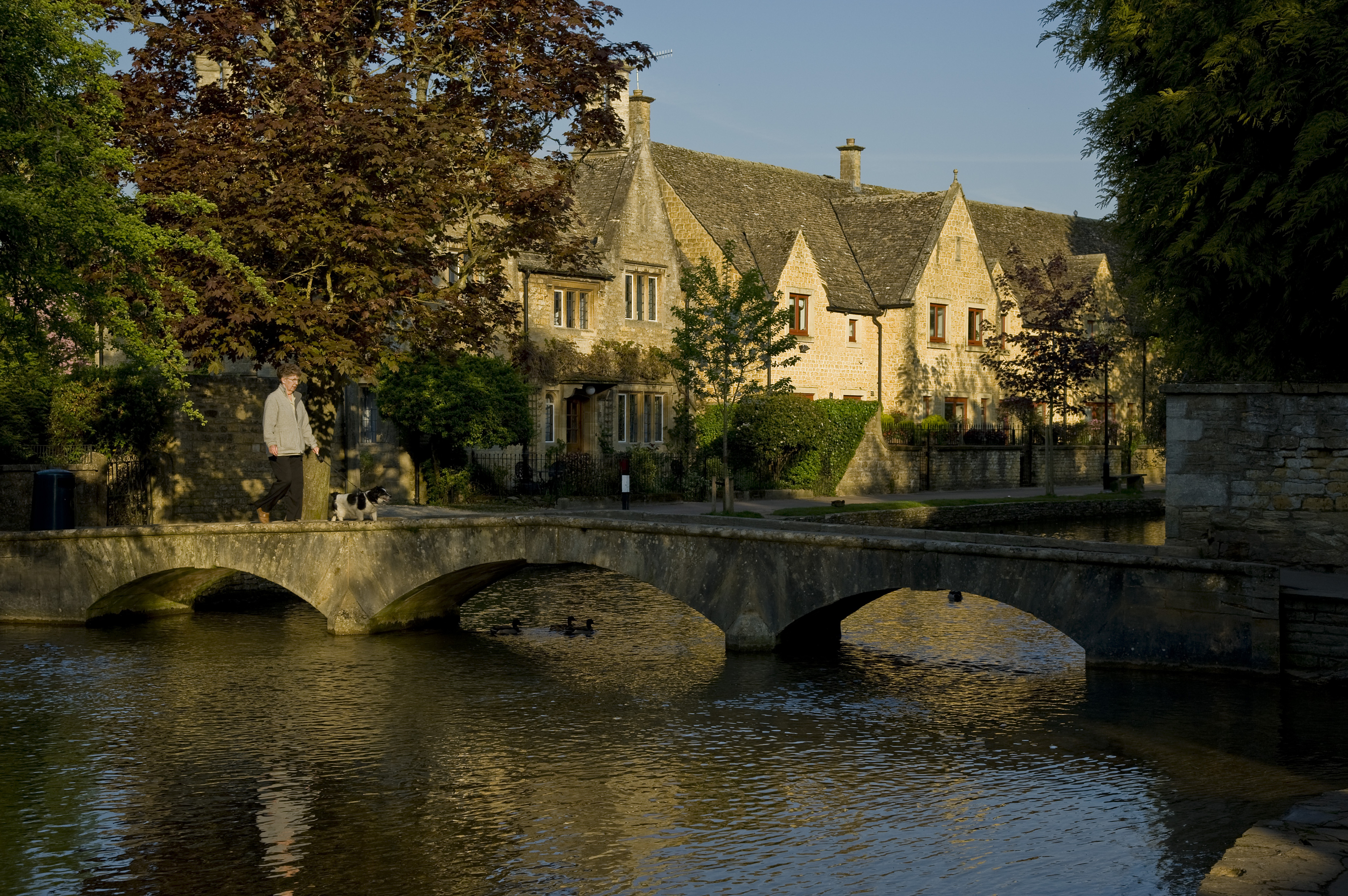 Footbridge over the River Windrush at Bourton-on-the-Water.